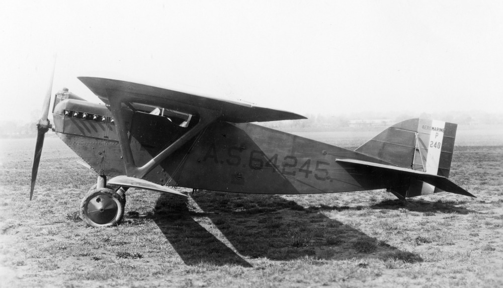 PictionID:41897823 - Title:Ray Wagner Photo Collection - Catalog:16_000832 Aeromarine PG-1 24645 - Filename:16_000832 Aeromarine PG-1 24645.tif